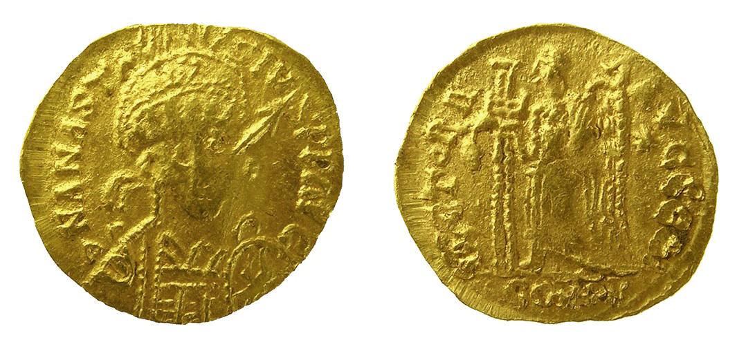 Gold Gallic contemporary copy of a Solidus of Anastasius (491-518), possibly of the Pseudo-Merovingian coinage, c. 500-580. Copied from a coin of Constantinople. Found with associated Early Medieval finds from a ploughed cemetery site (Treasure case no. 2007 T203). Note: the BM has 7 imitations of solidi of Anastasius, but none are very similar to this piece. References: Hahn, MIB I, type as no. 4; MEC, plate 17, c. f. nos. 336 & 347-8.